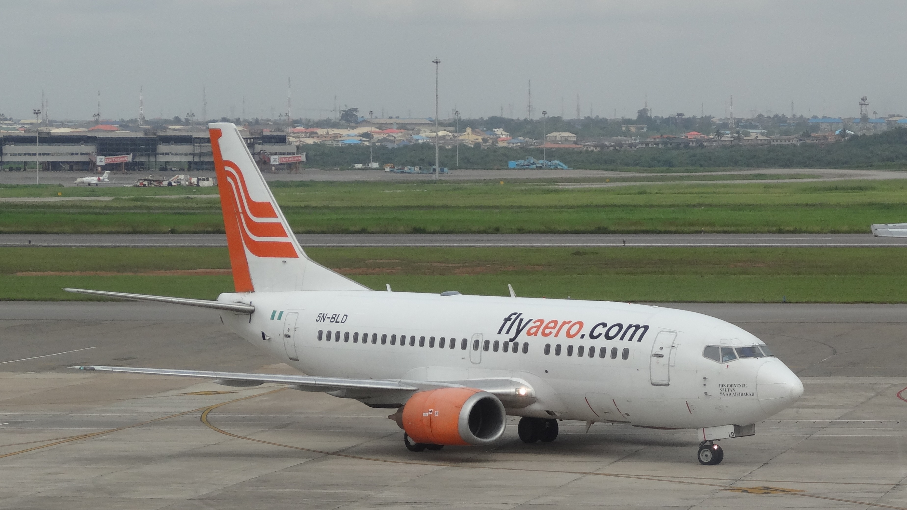 National Gallery of Art, spotting at the domestic terminal of Lagos airport